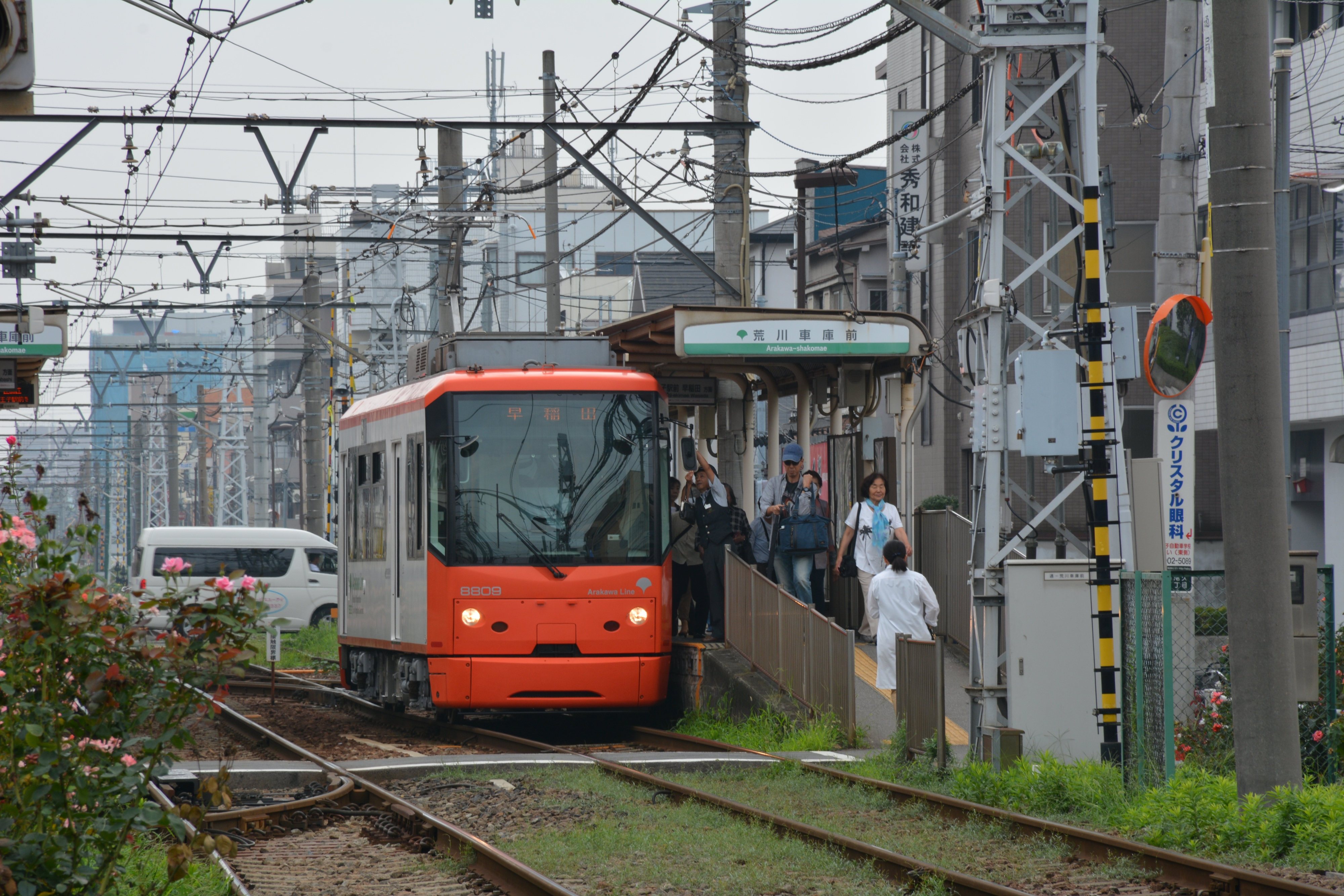 Toei 8800 series tramcar 8809 at Arakawa-shako-mae on the Toden Arakawa Line in Tokyo